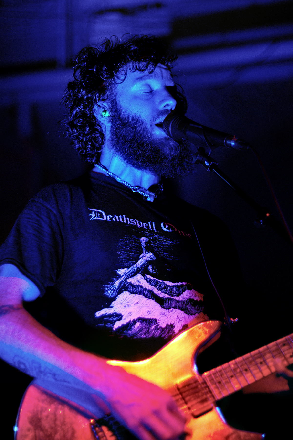 View in my concert gallery.